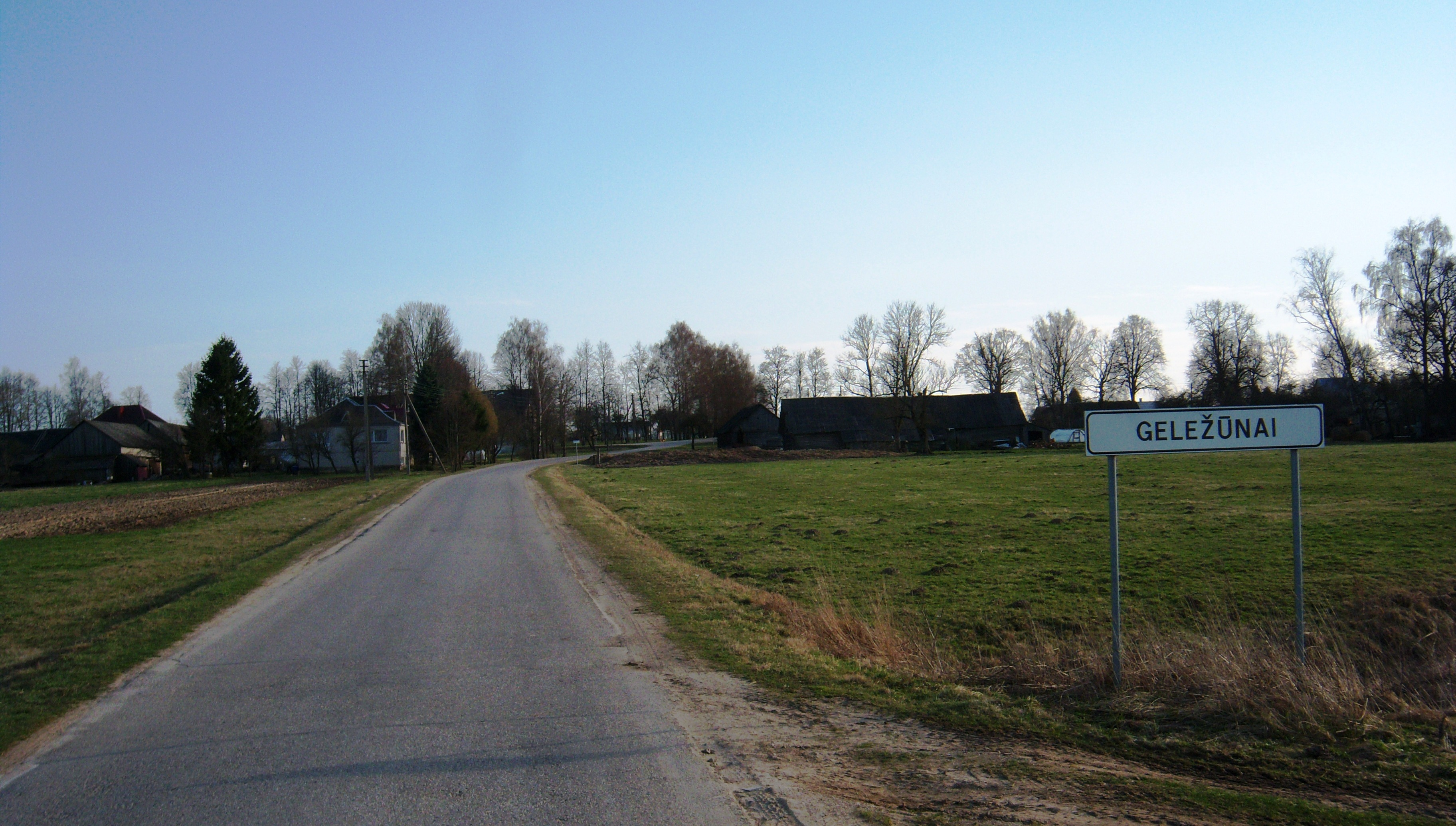 Geležūnai, Birštonas municipality, Lithuania